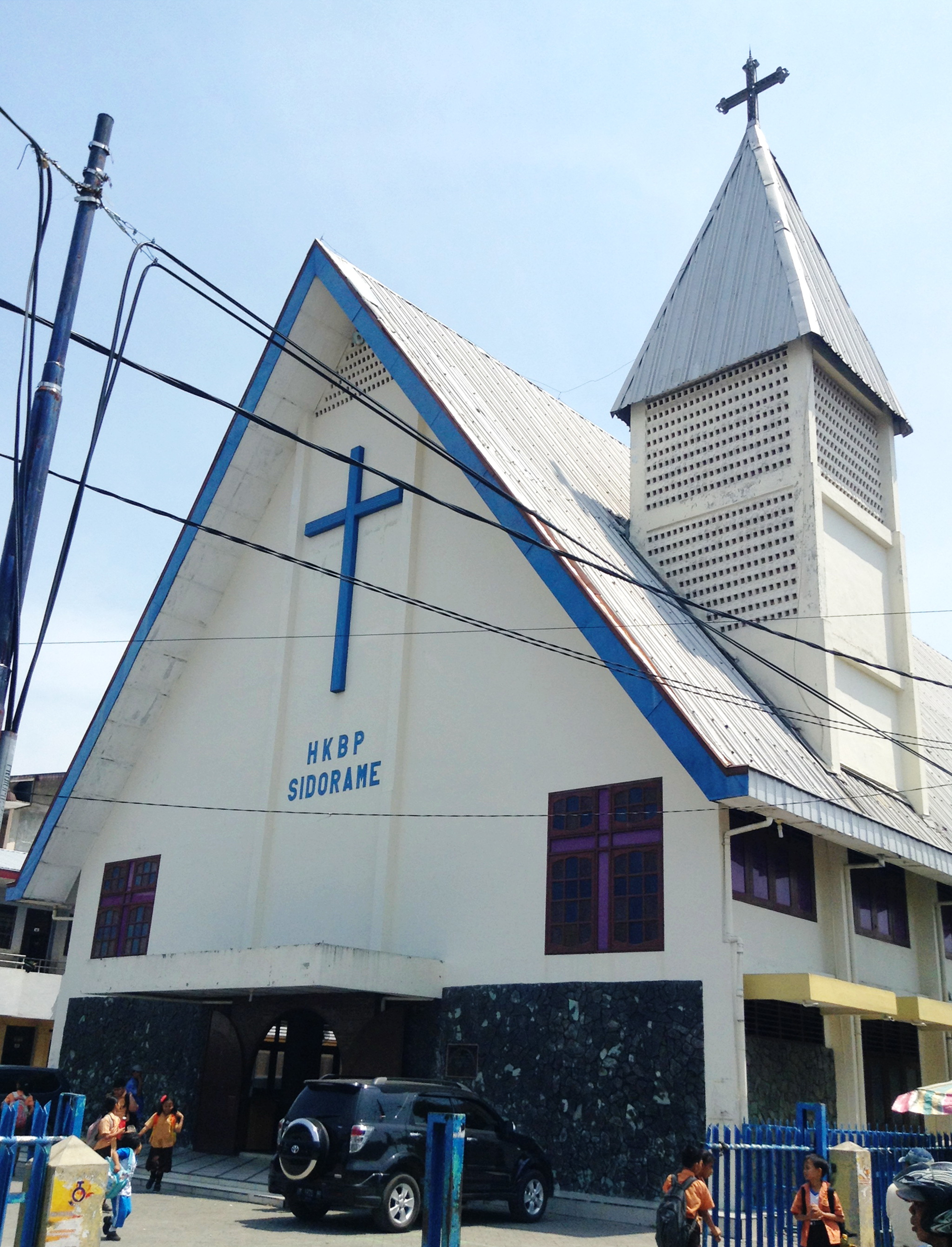 HKBP Sidorame, church in Sidorame Barat II, Medan Perjuangan, Medan